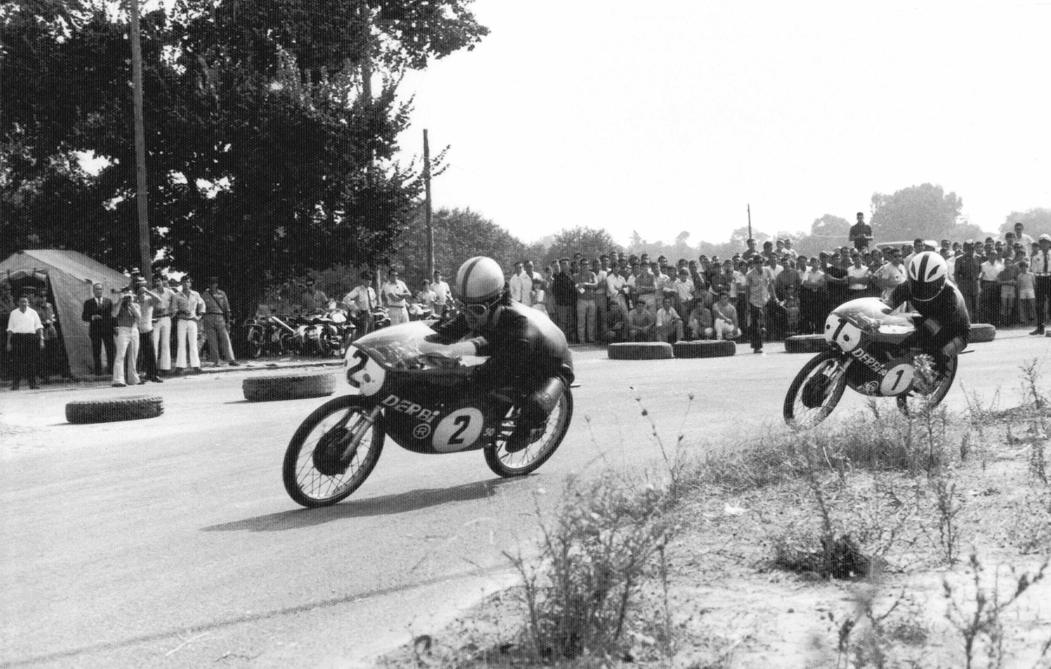 Repsol’s debut in motorcycle racing. Juan Parés (2) and Ángel Nieto, Derbi factory riders, follow runaway winner Barry Sheene at Brno (Czech Republic).